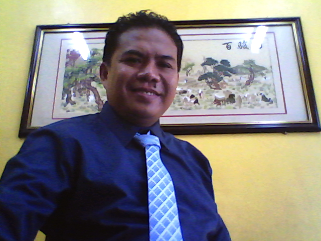 Principal